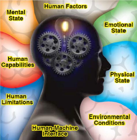 Human Factors in the aircraft maintenance